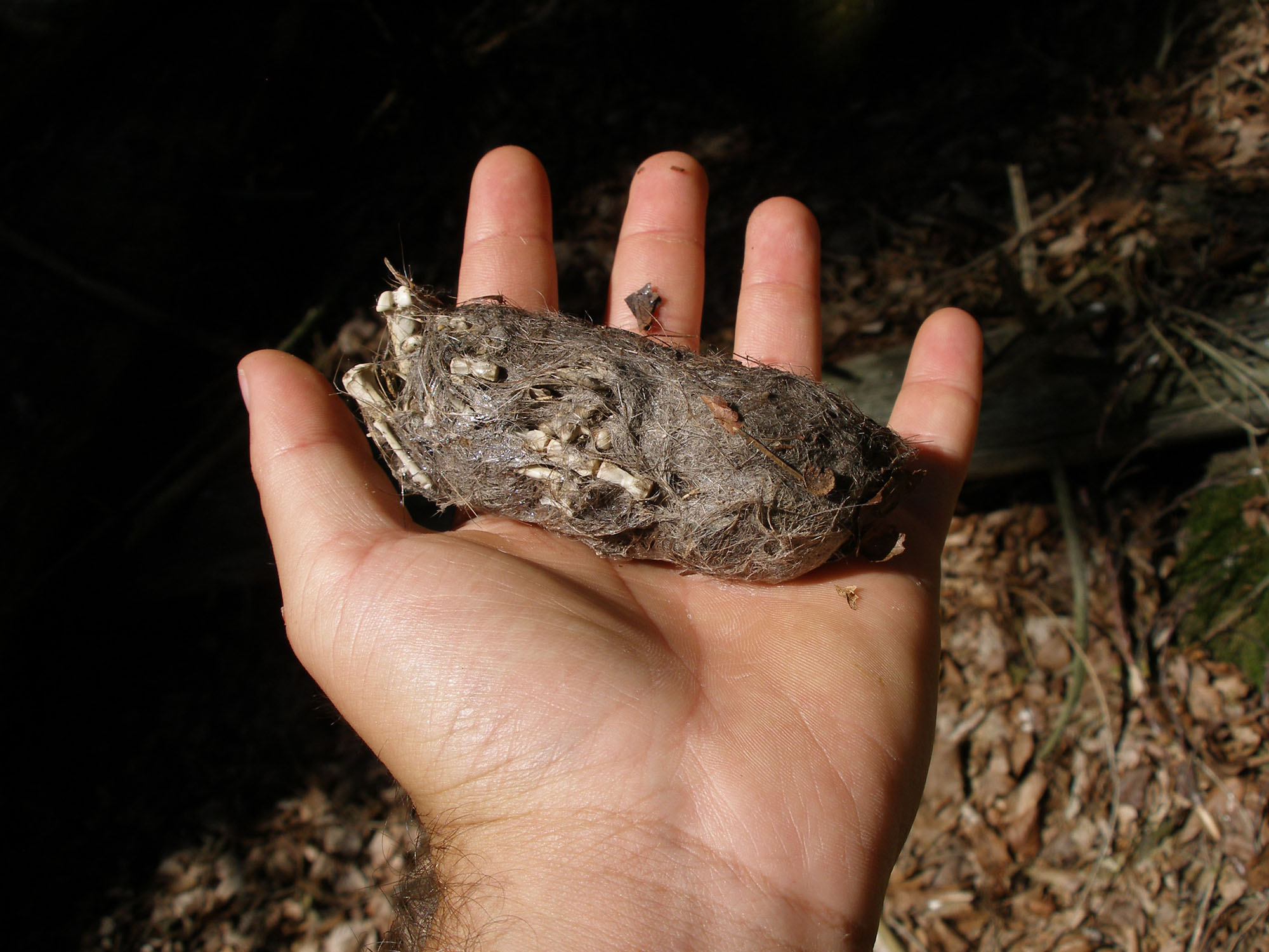 Pelett of Bubo bubo.